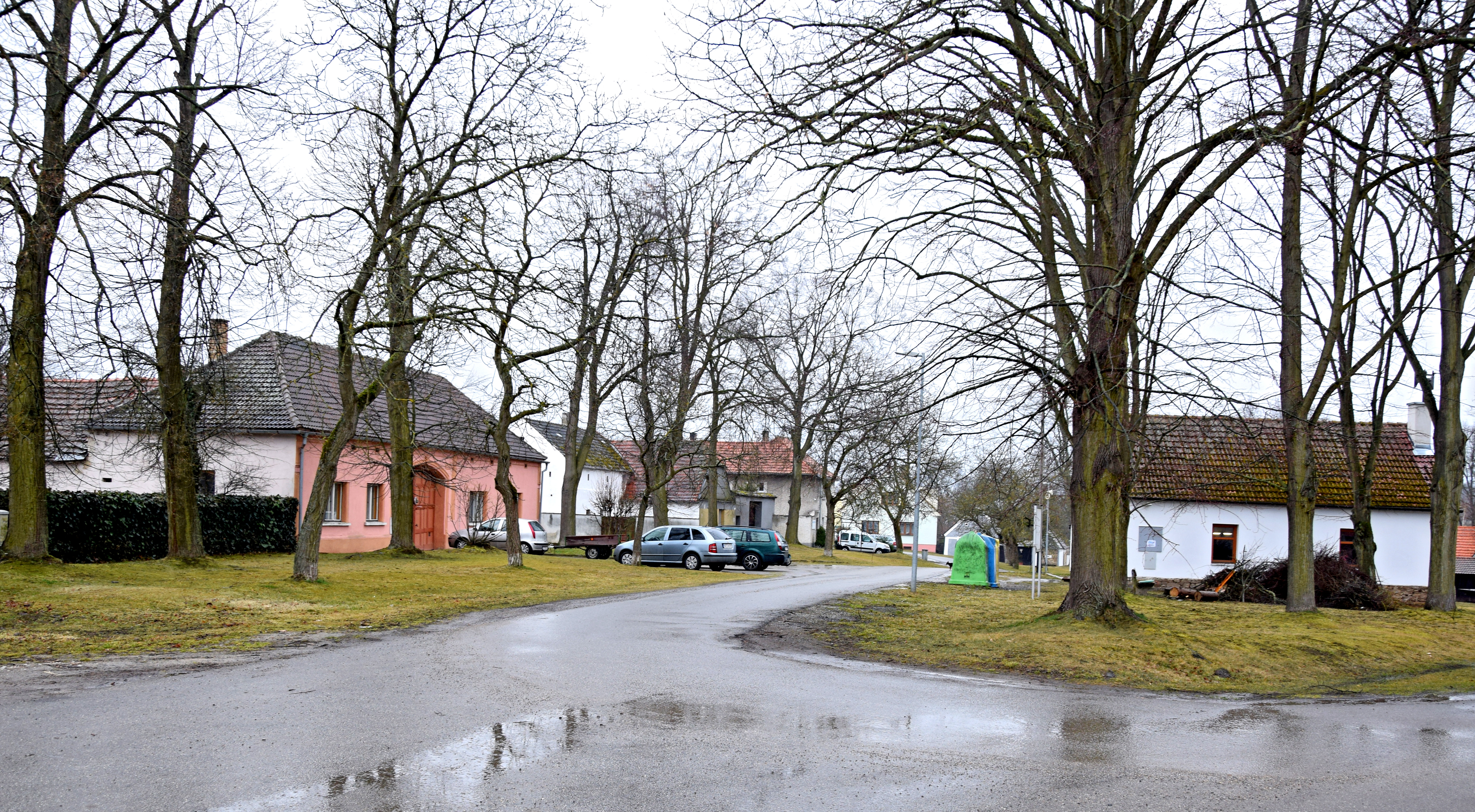 Nová Ves v okrese České Budějovice.